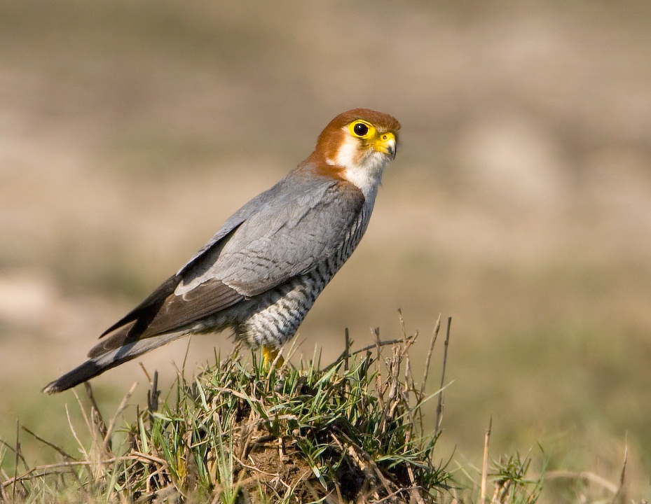 Falco chicquera. Red-necked Falcon or Red-headed Merlin, Jamnagar, India. Photograph by Subramanya CK at Jamnagar, 2010. Contact